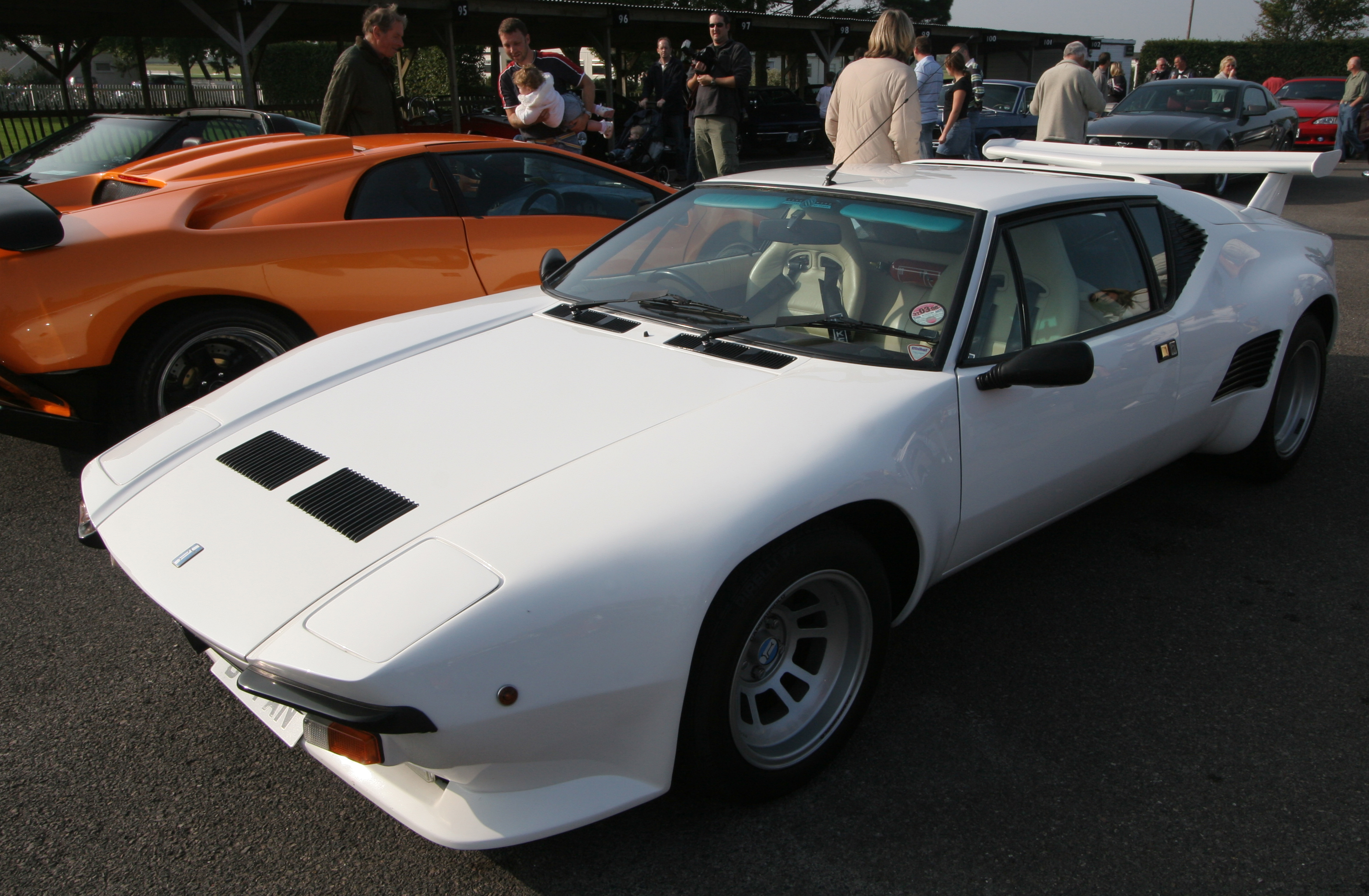 Goodwood Breakfast Club - De Tomaso PanteraGoodwood Breakfast Club - De Tomaso Pantera